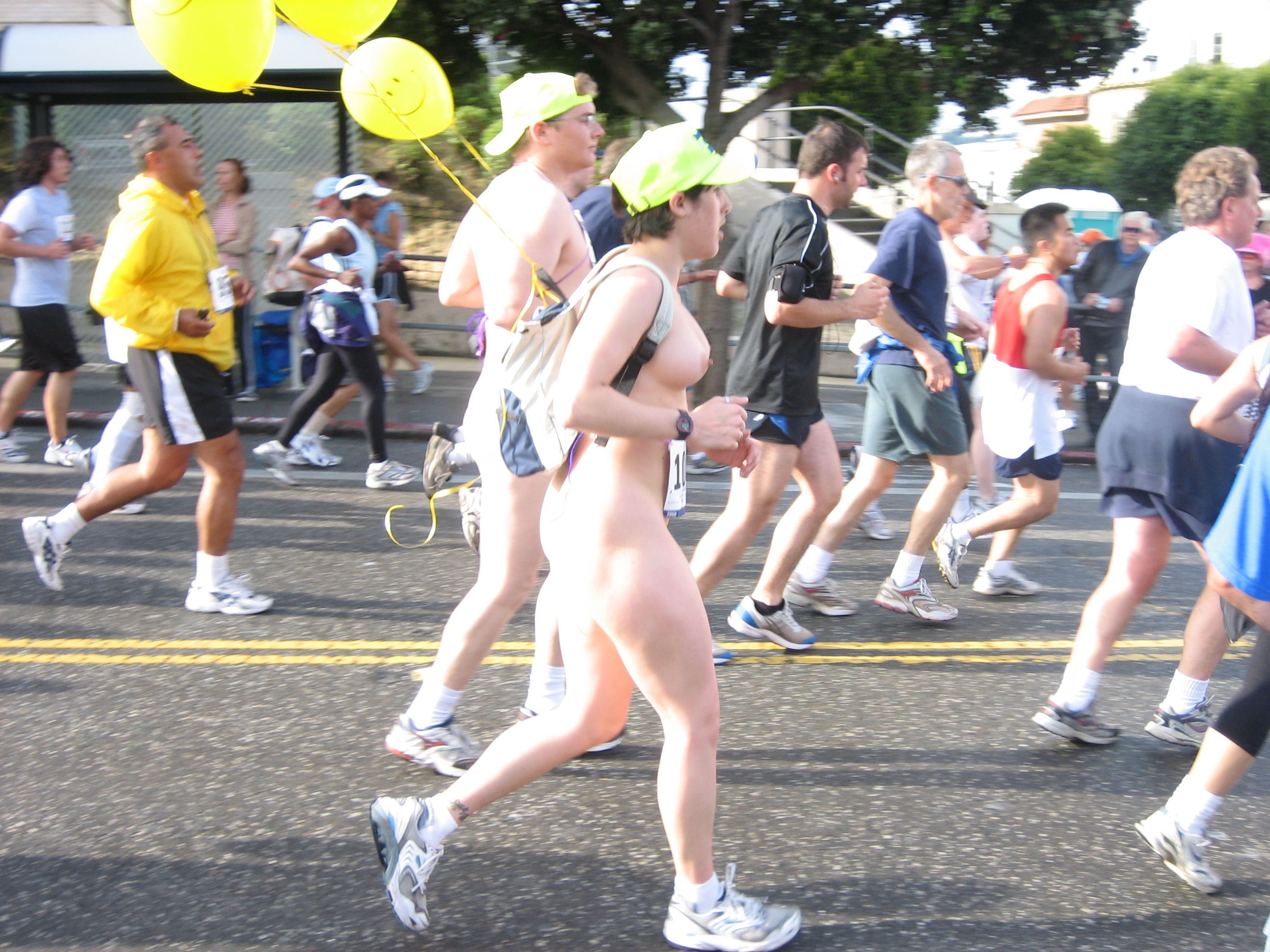 Bay to Breakers Run